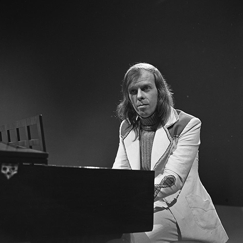 Apollo 100 in AVRO's TopPop (Dutch television show) in 1972